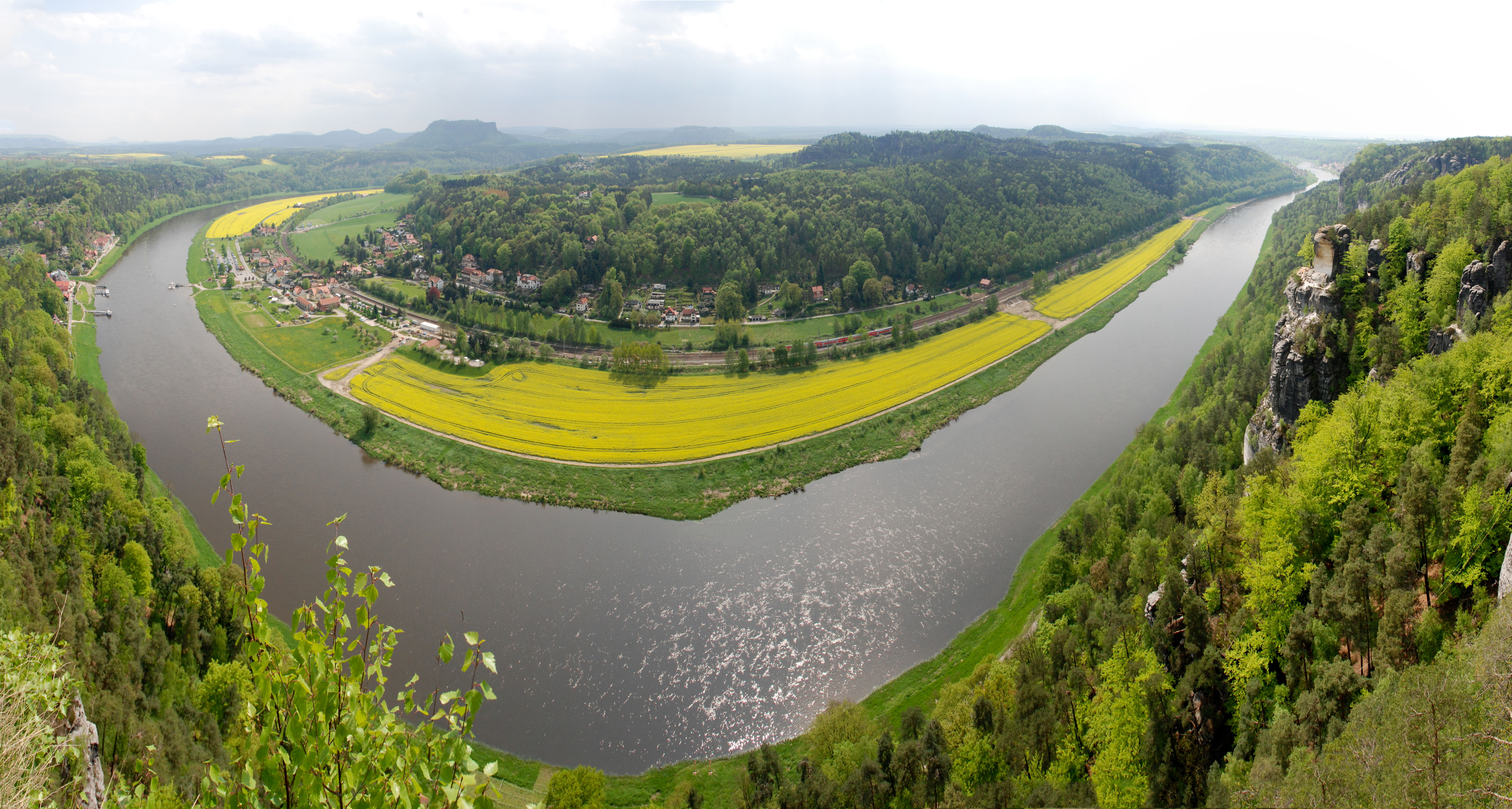 View of the River Elbe near Sächsischer Schweiz